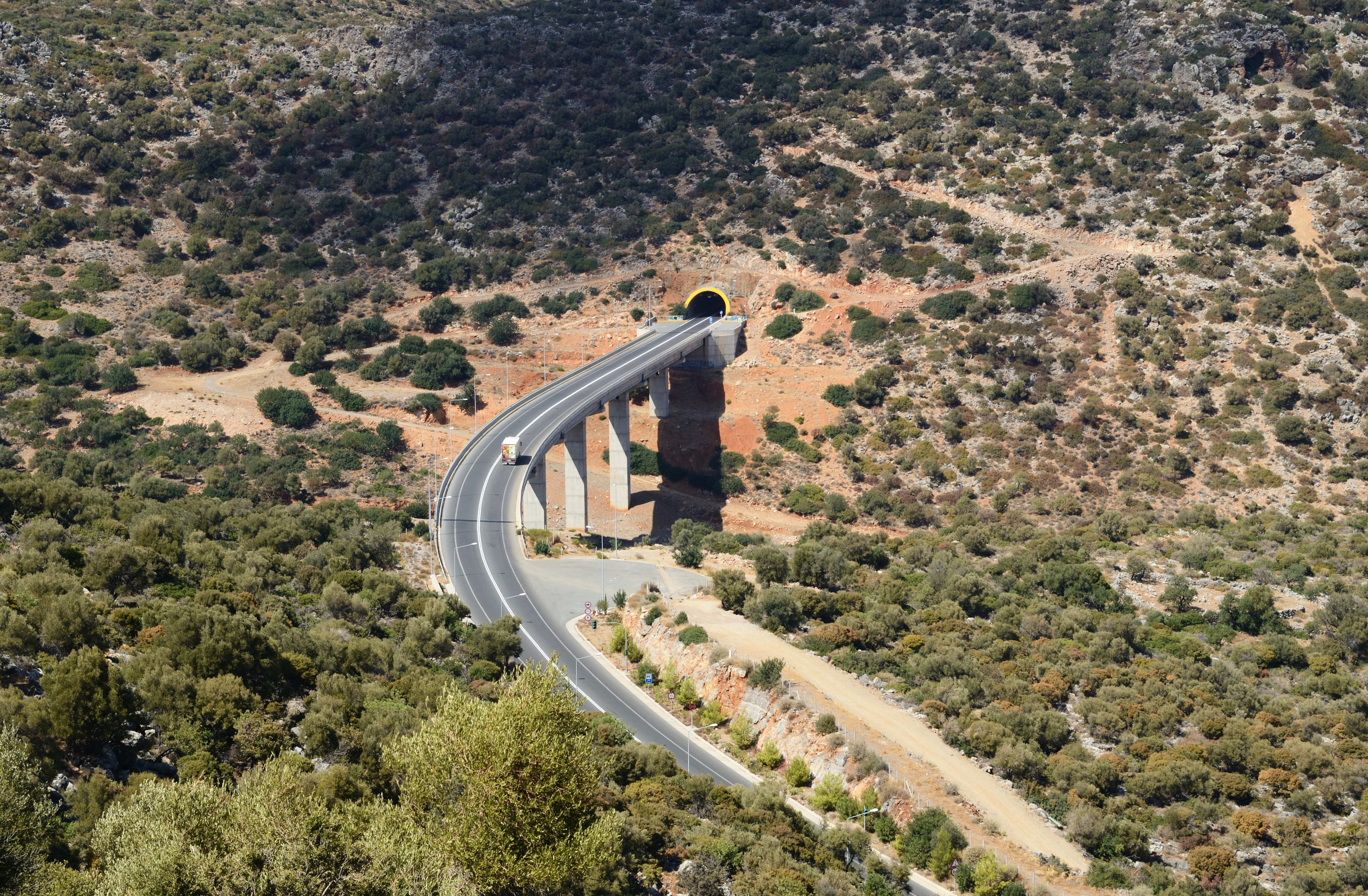 Crete: European route E75